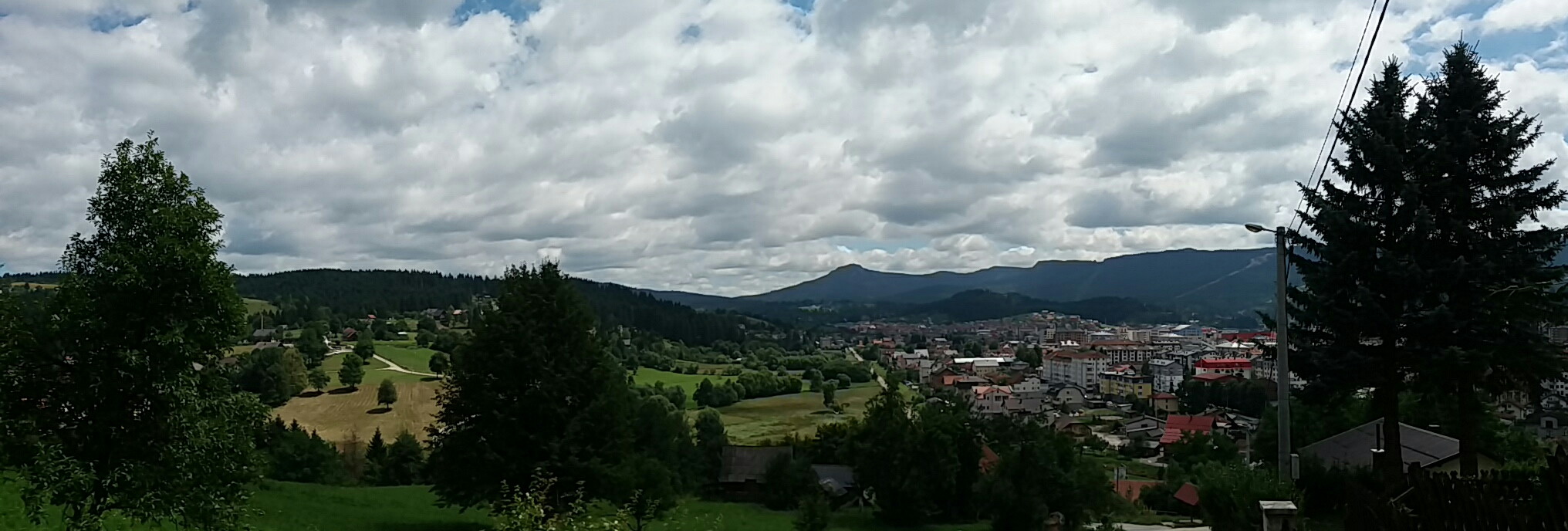 Pale, panorama, Republic of Srpska